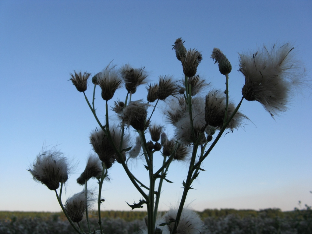 Ottsvevshy bodyak Field visible down.